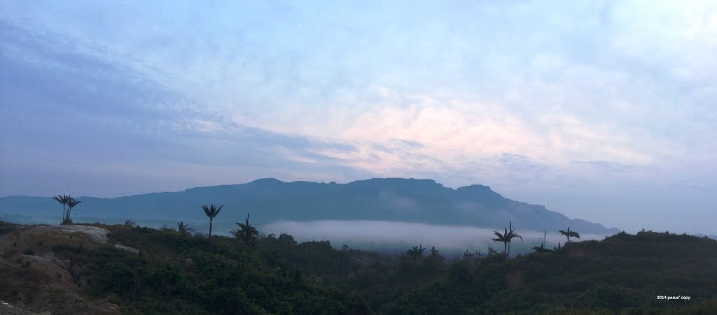 This is a scenery is taken early morning around 7am from Long Luar resettlement